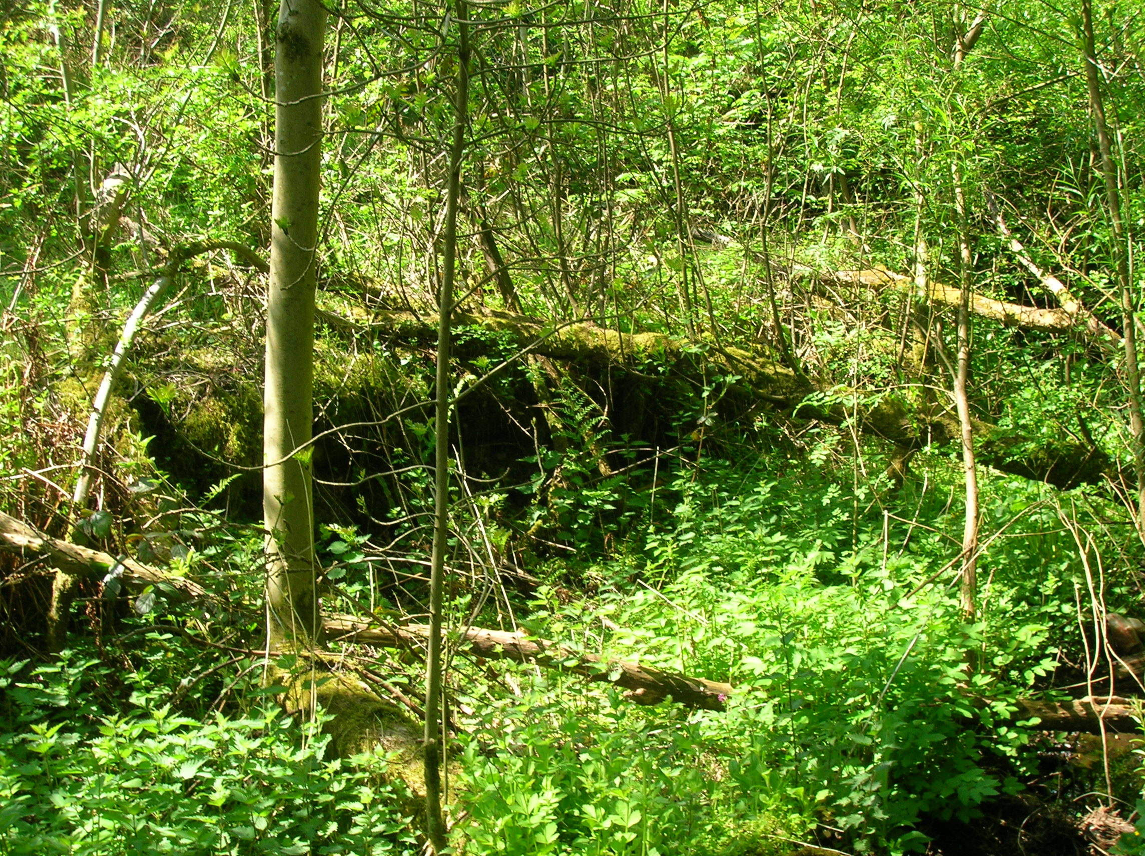 The remnants of the old railway platform at Brackenhills Railway station, North Ayrshire, Scotland